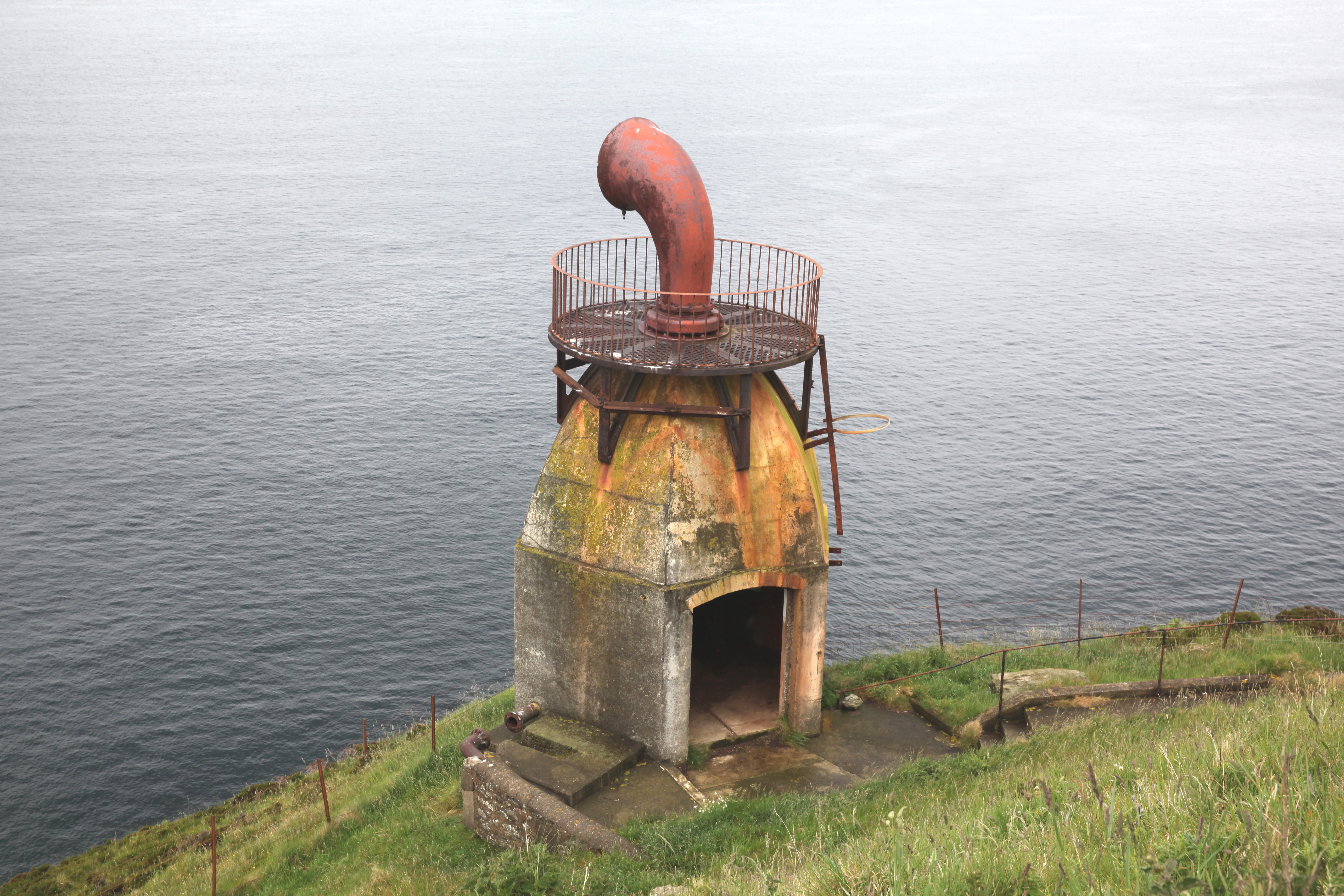 Mull of Kintyre Leuchtturm, Nebelhorn